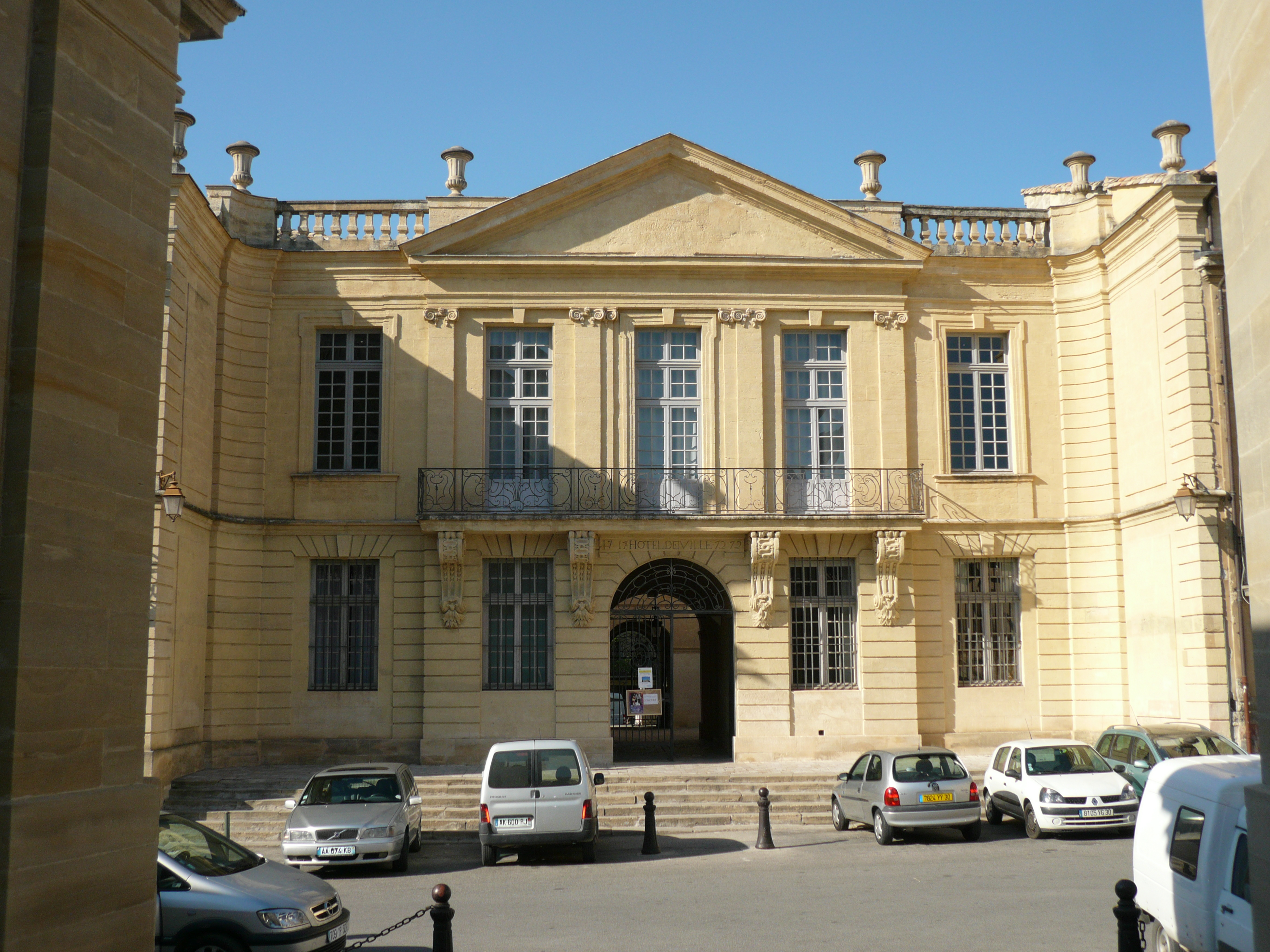 Town hall of Uzès (France).